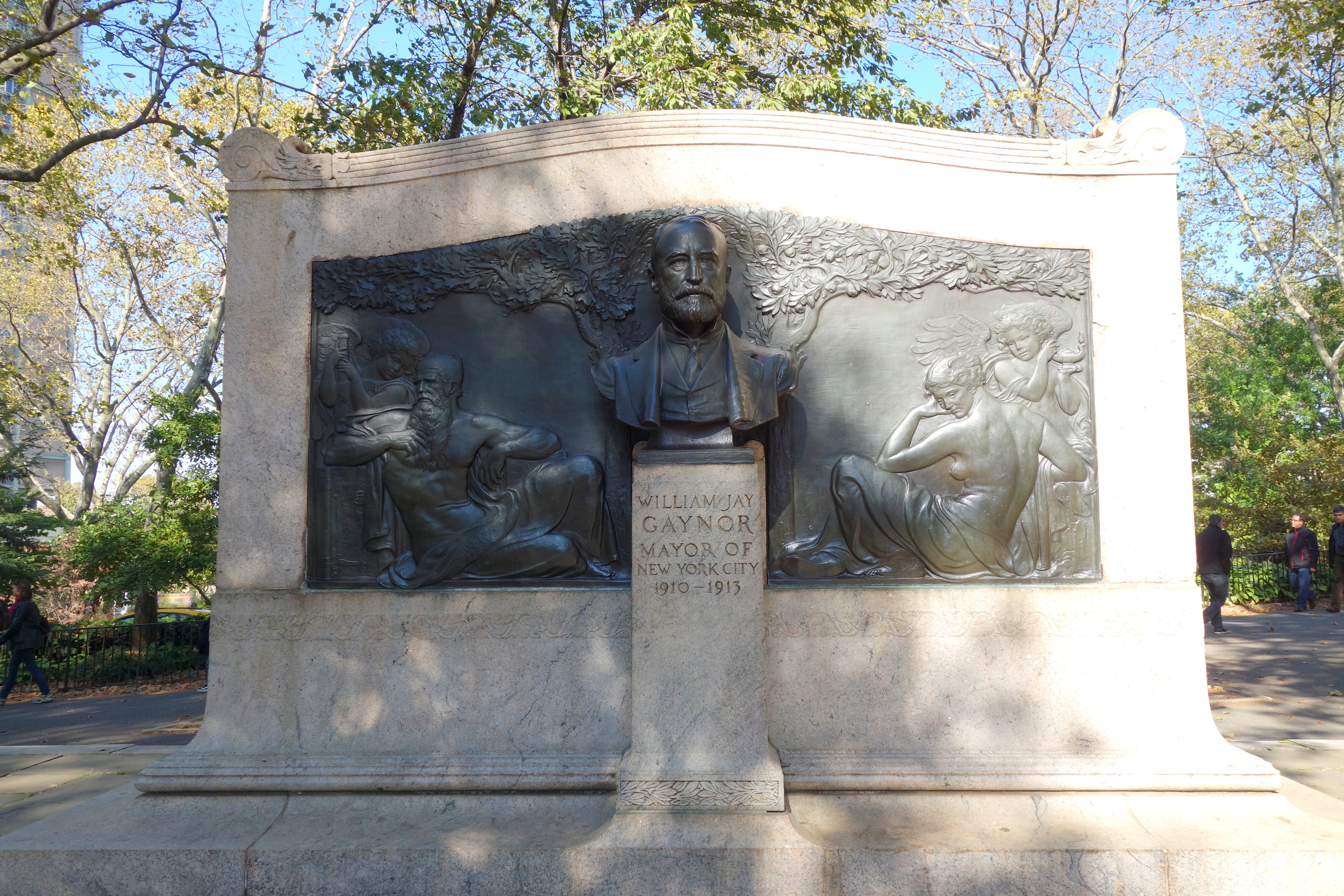 William Jay Gaynor Memorial - Cadman Plaza Park, Brooklyn, New York, USA. New York City Parks entry: [1]. The monument honors William Jay Gaynor (1851–1913), journalist, lawyer, state supreme court justice, Brooklyn resident, and mayor of New York from 1910 to 1913. Sculptor: Adolph Alexander Weinman (1870–1952) Dedicated in 1926. This artwork is in the public domain because it was published in the United States between 1923 and 1963, with its copyright not renewed.